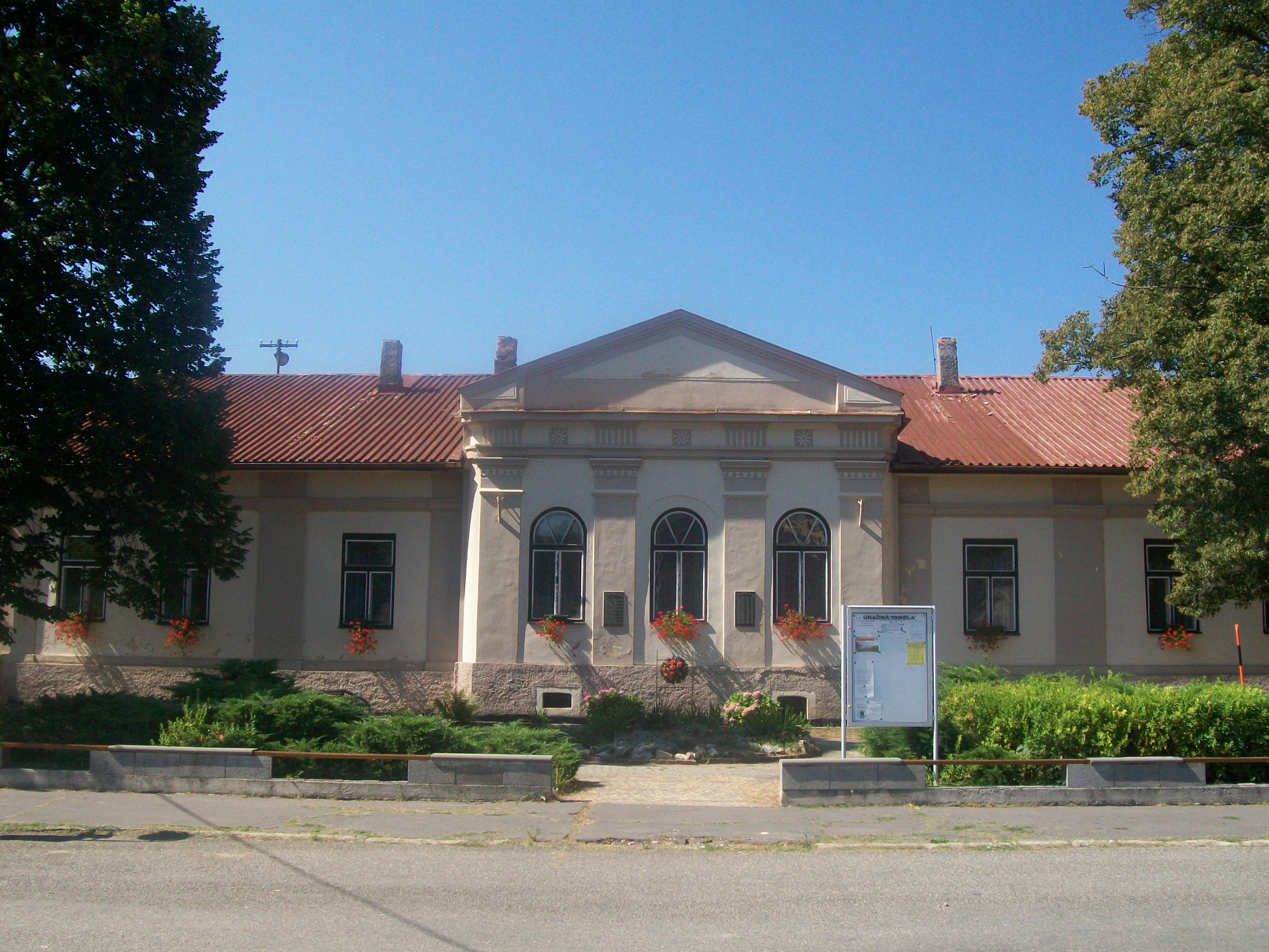 Yeoman mansion of the 1st Half of the 19th century (Uhorské)